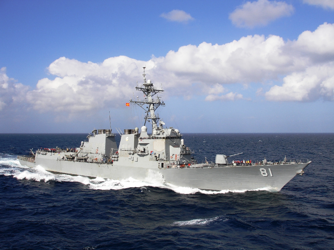 Broadside view of DDG-81 USS Winston Churchill